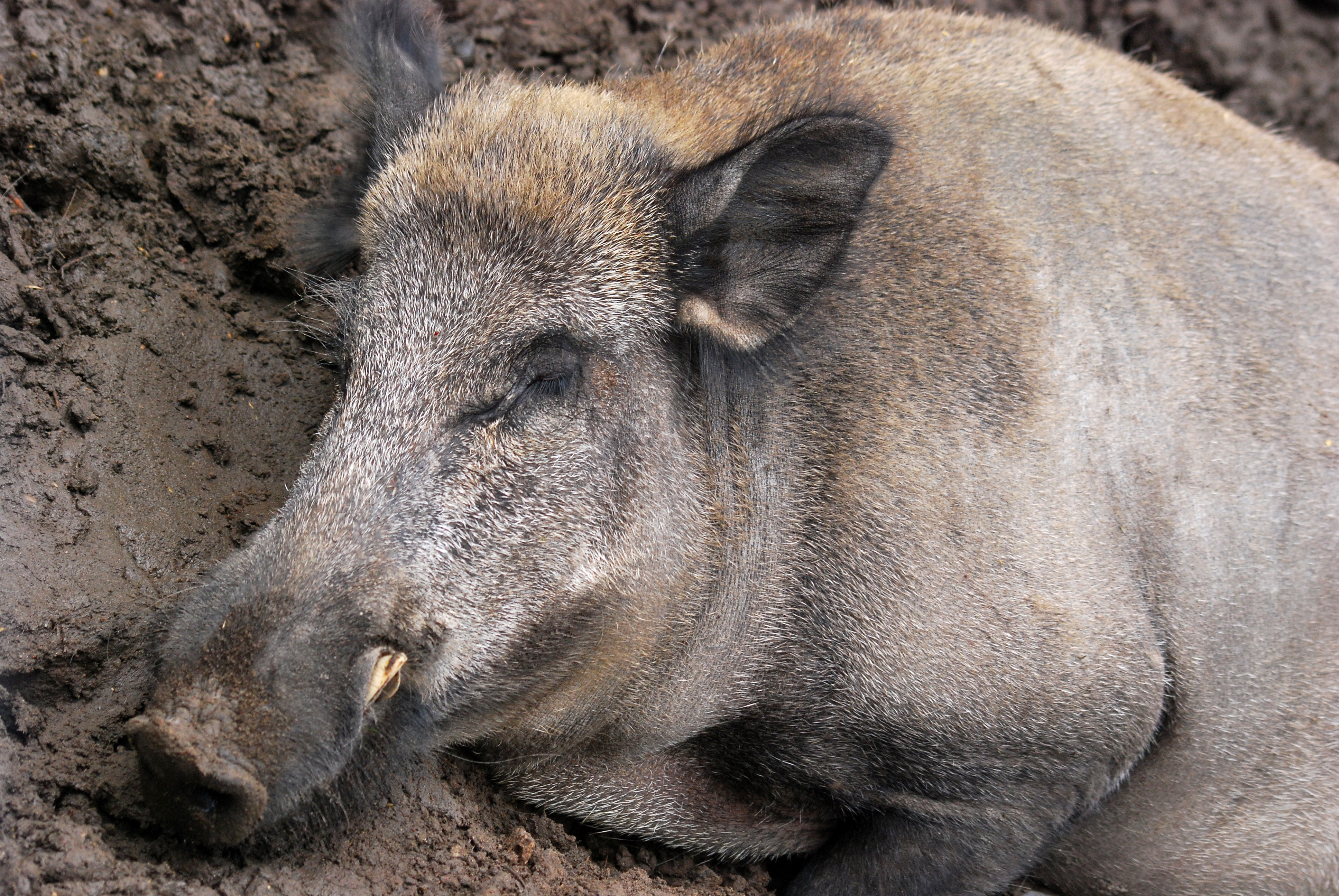 This photo from Podlaskie Voievodeship was taken during Polish Wikiexpedition 2009 set up by Wikimedia Polska Association. The making of this document was supported by Wikimedia Polska. Dzik